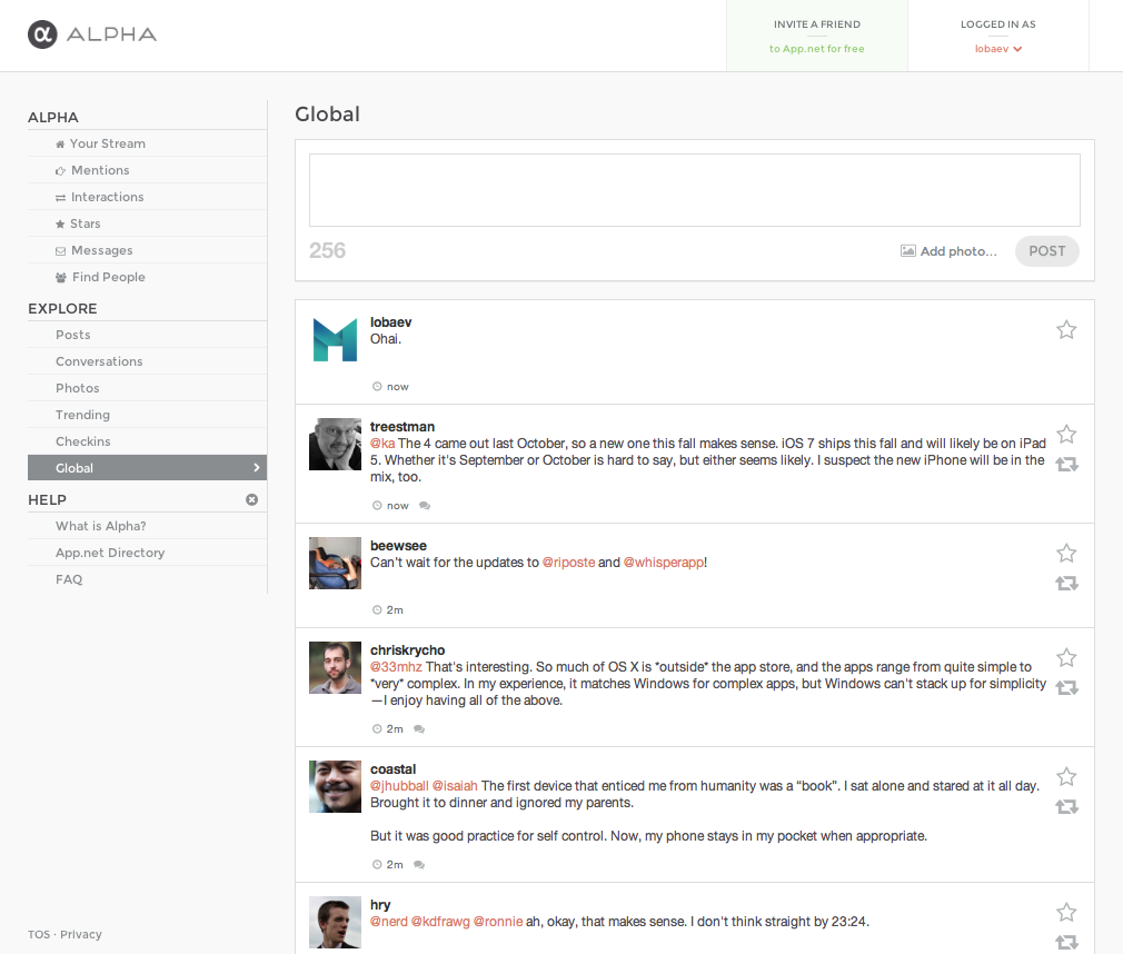 Global Feed page on